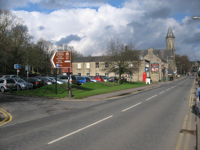 Saddleworth Museum and Art Gallery The building in the centre of the picture is the Saddleworth Museum and Art Gallery. The museum opened in 1962 and is situated in one of the out buildings of the 19th century Victoria Mill the only part of the mill to survive with the rest of the mill originally occupying the car park to the left of the museum. In 1980 the Museum was extended thanks to a well supported public appeal, and an Art Gallery was added for exhibitions which also serves for various local events including lectures, children's events, and charity fund-raising. Saddleworth Museum and Art Gallery is an independent organization and a registered charity for funding it is reliant on entrance charges, donations, funds raised by the Friends, grants and support from Oldham Metropolitan Borough Council. One of the hidden treasures of Saddleworth Museum is undoubtedly its archive. Many people are unaware that under the same roof as the exhibits lies one of the single richest sources of local history to be found anywhere in the north of England. There are Photographs, Maps, Deeds, Wills, Census Returns and Parish Records with some of the earliest items dating back to the late 1500s. For more information about the museum click